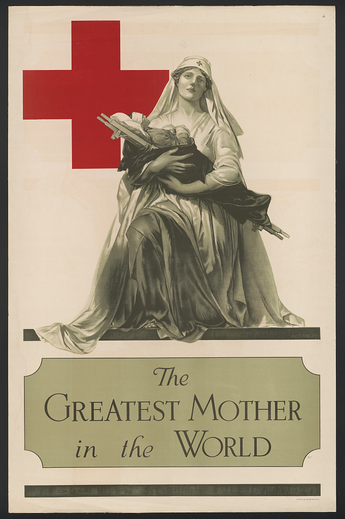 Title: The greatest mother in the world / A. E. Foringer. Abstract/medium: 1 print (poster) : lithograph, color ; sheet 117 x 76 cm.